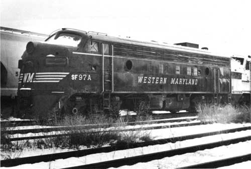 Western Maryland Railway 97A EMD FP7